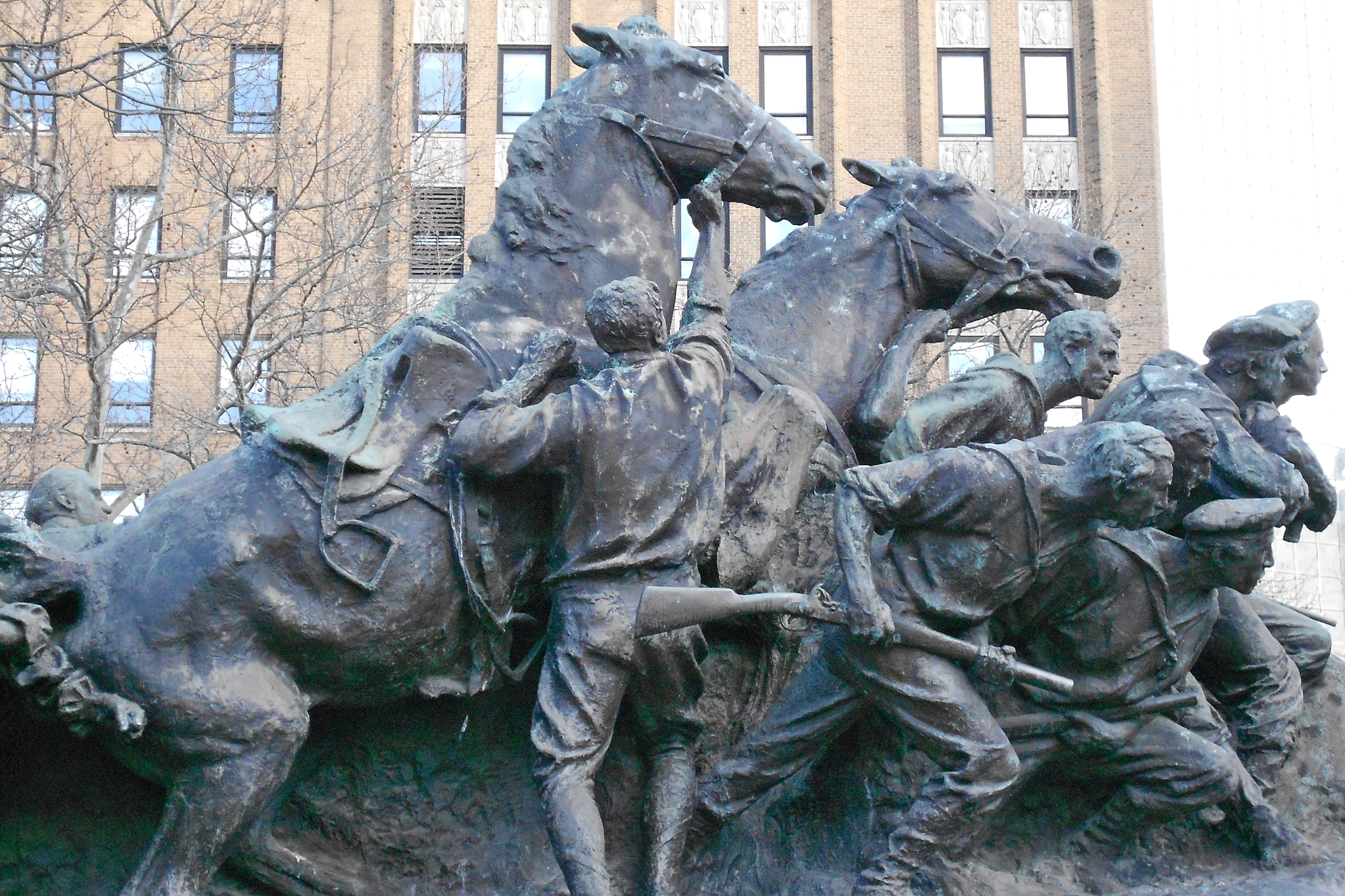 Part of the statue "Wars of America" by Gutzon Borglum in Military Park, Newark, New Jersey